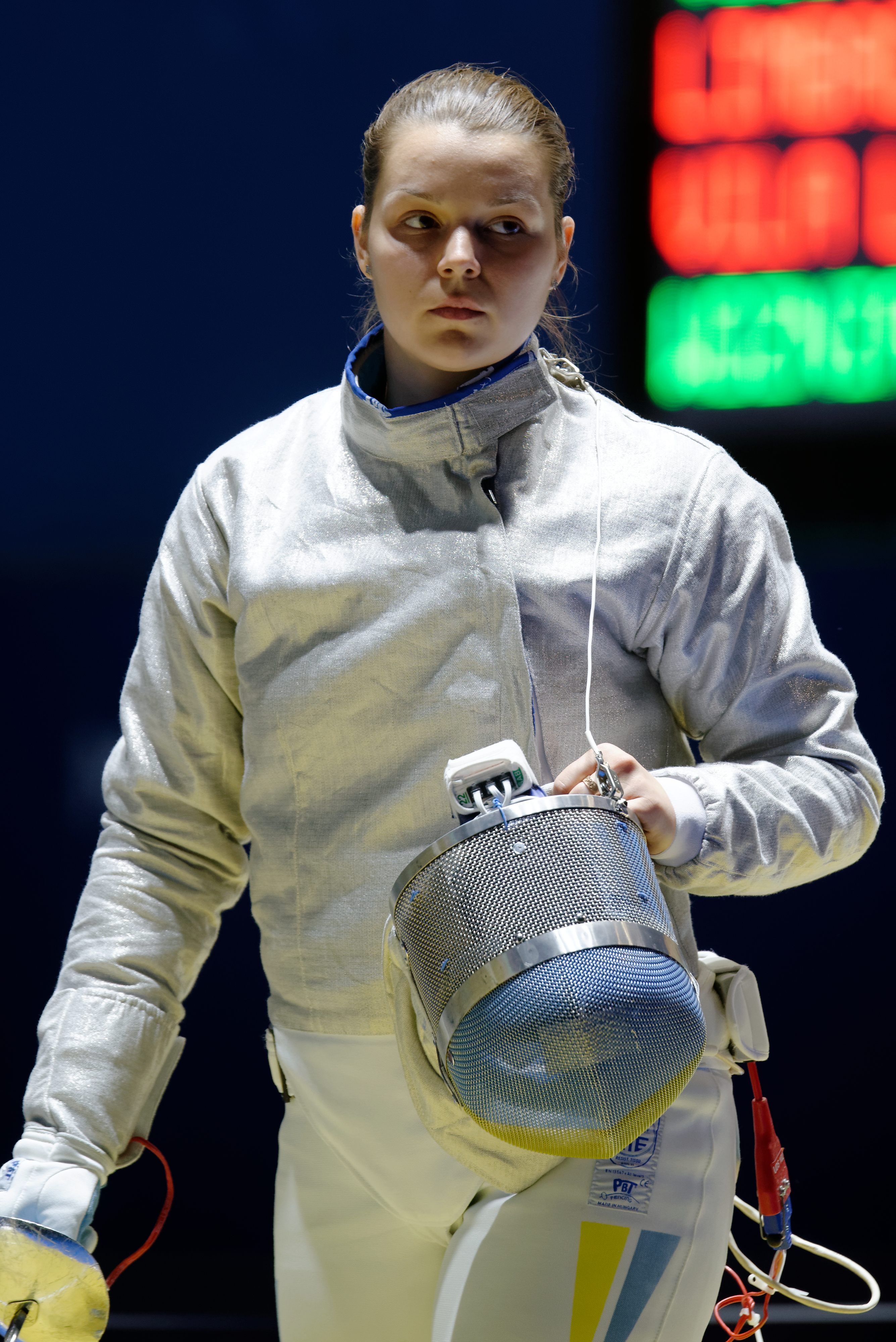 Ukraine's Alina Komashchuk the women's sabre event of the 2015 World Fencing Championships on 14 July 2014 at the Olympic Stadium in Moscow.